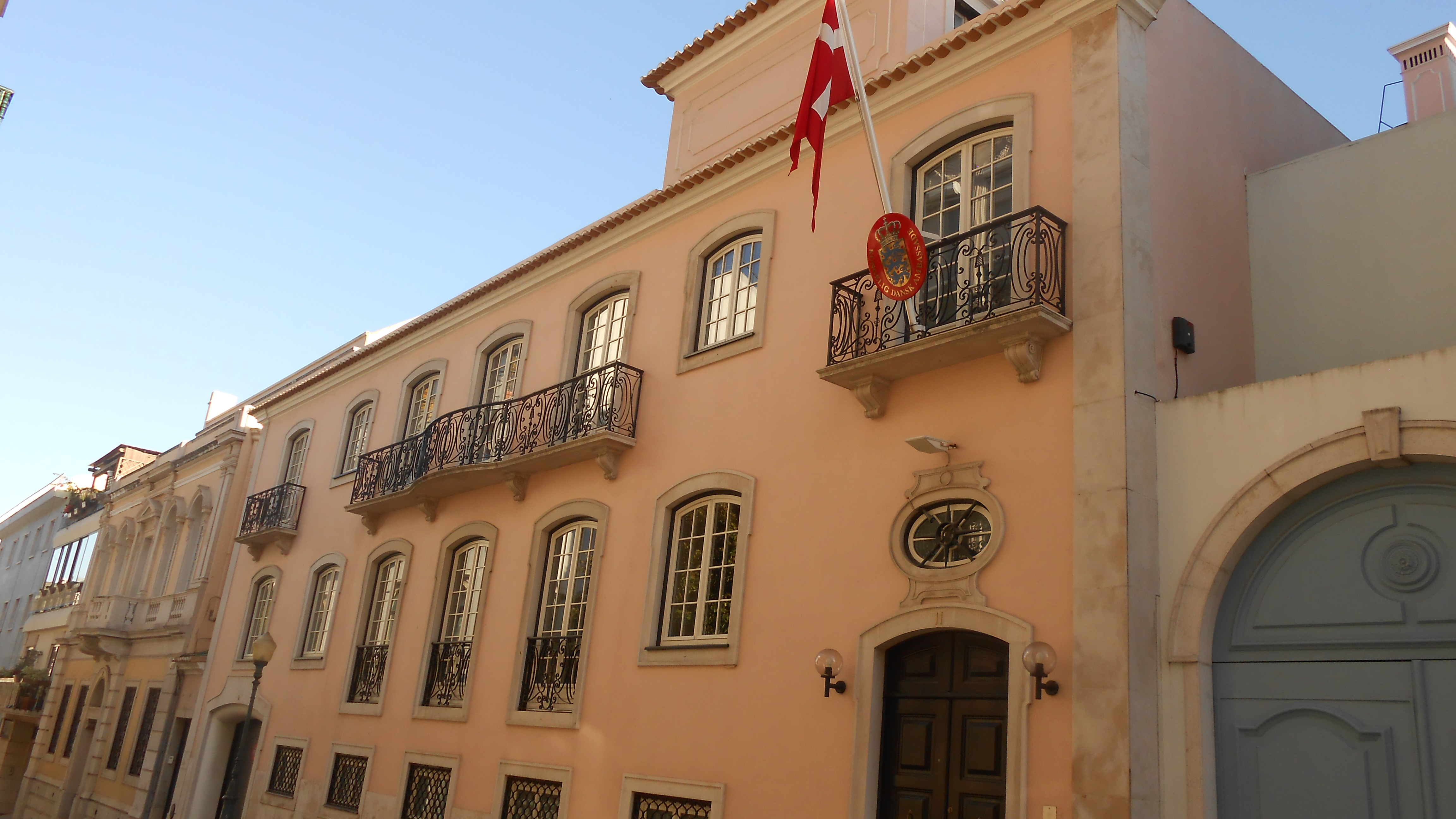 The residence of the danish ambassador in Lisbon.